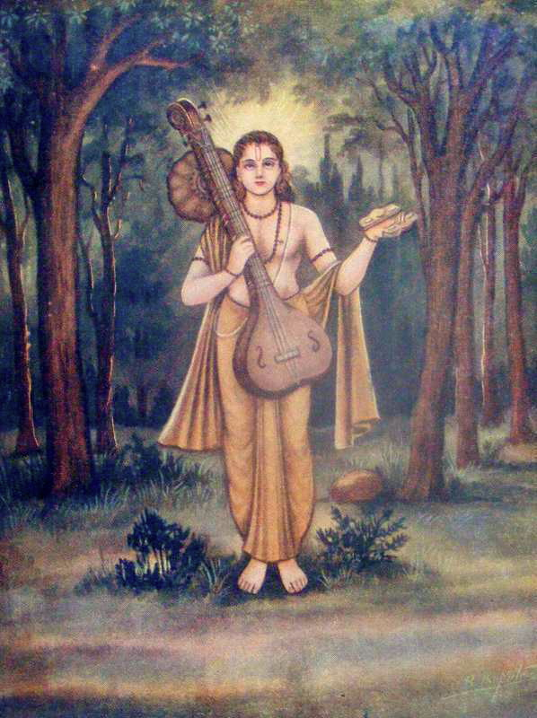 Two mythological Character, Narad and Vasudev